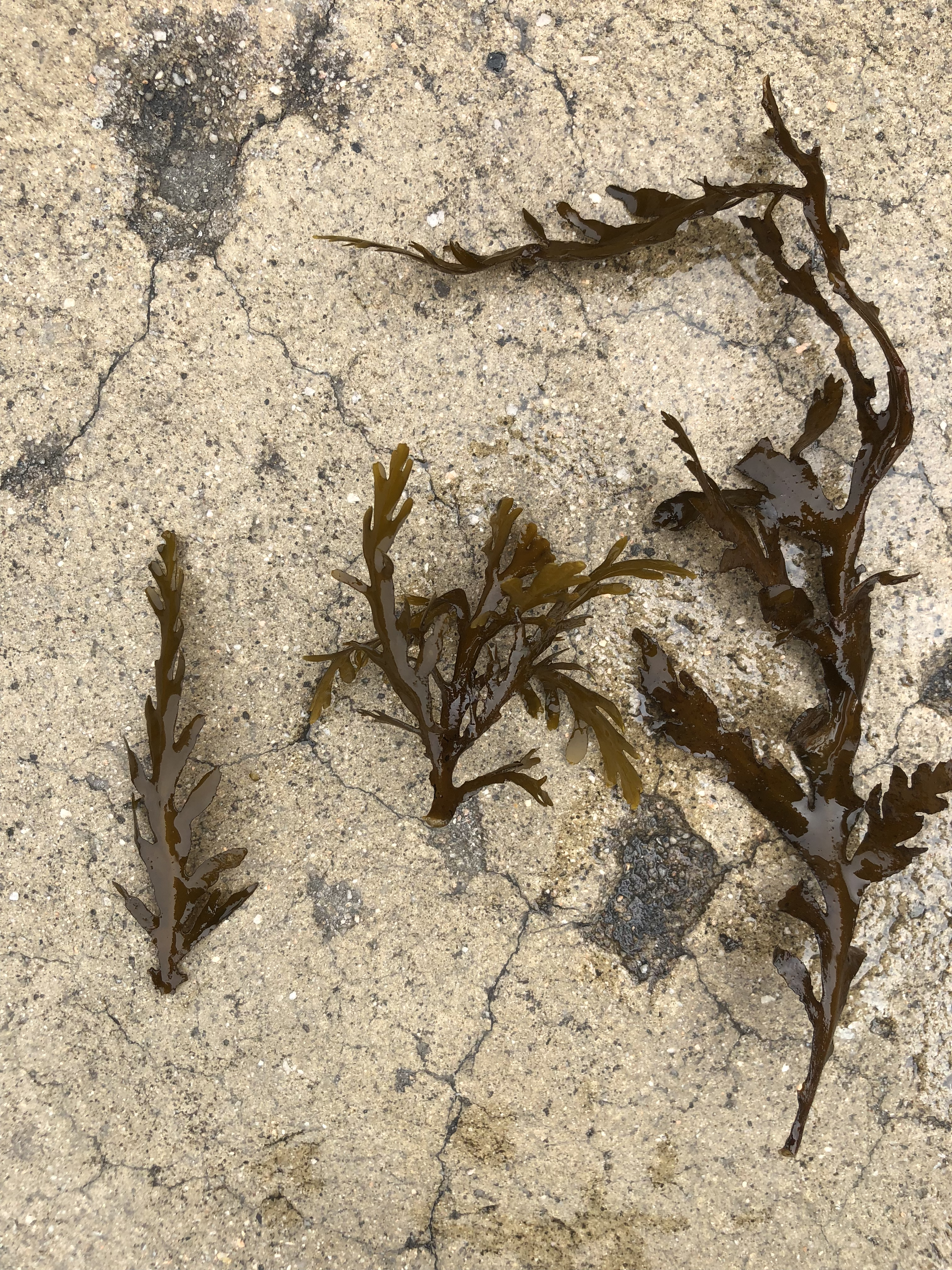 Dictyota binghamiae blades, taken from an organism at the Birch Aquarium in San Diego, CA.